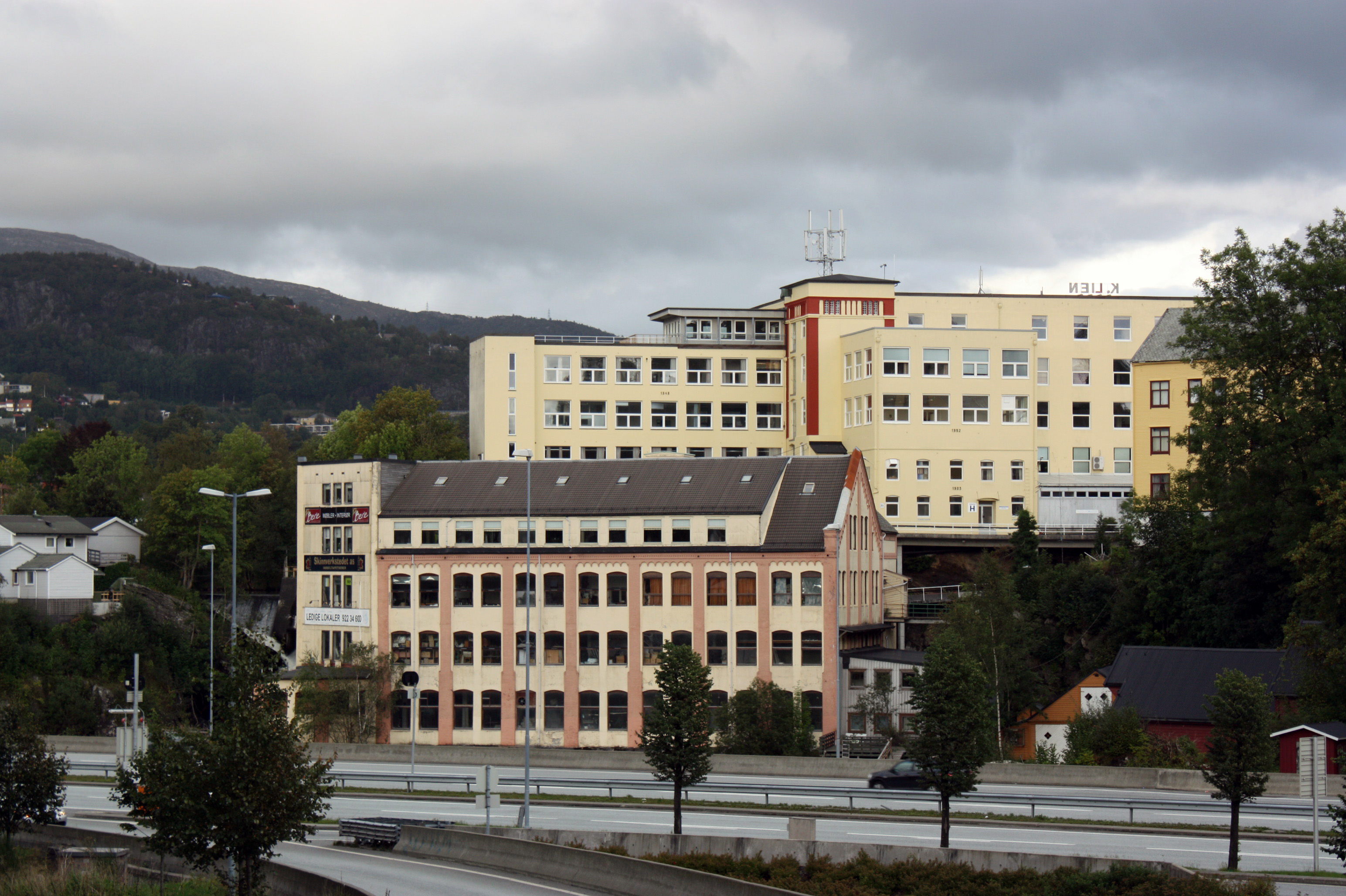 Hop Tricotagefabrik. First built 1903, later expanded.